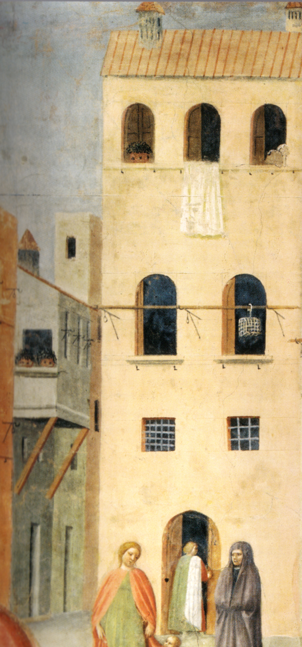 Healing of the Cripple and Raising of Tabitha 17